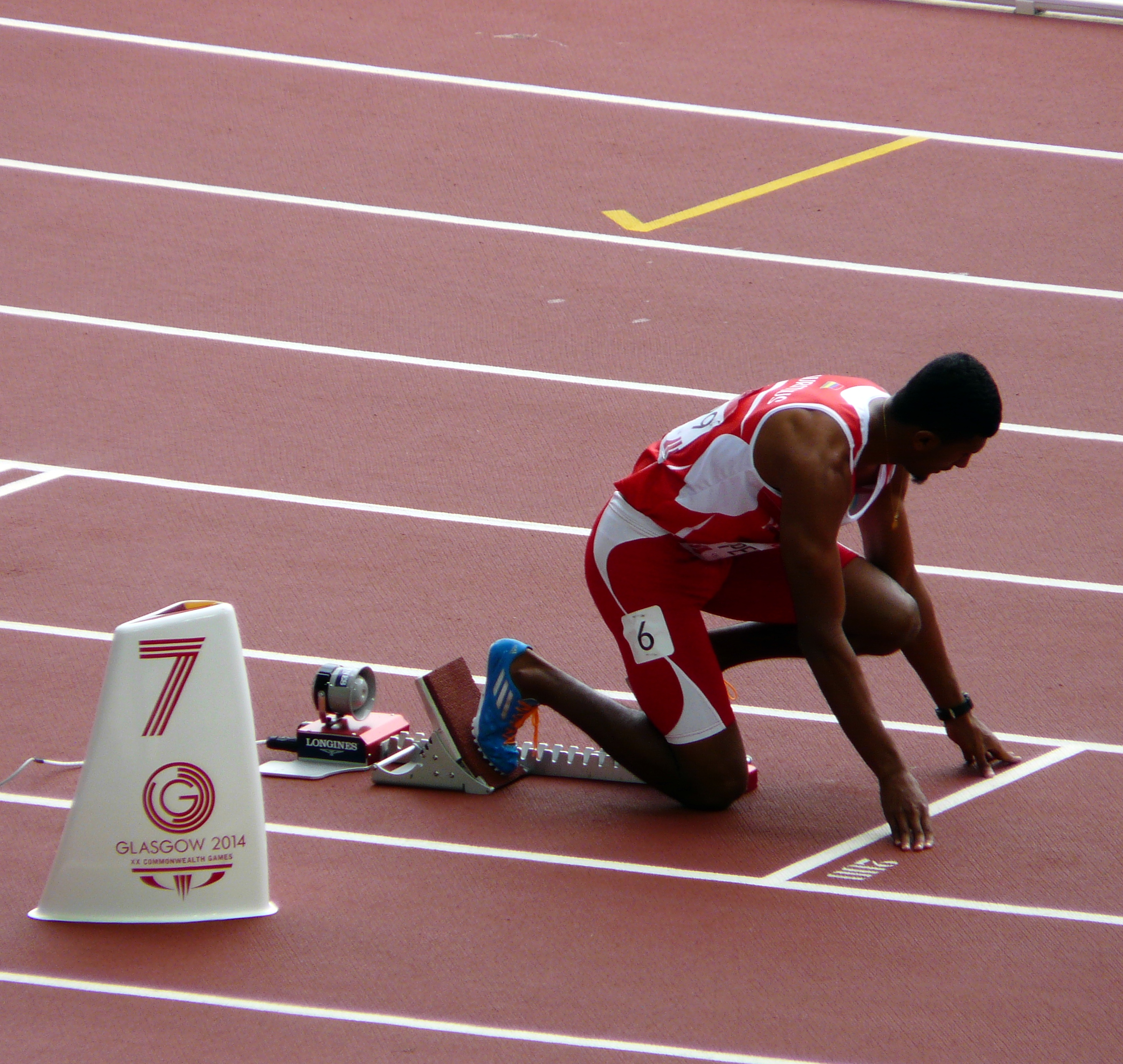 Hampden Park Glasgow Commonwealth Games Day 7 Athletics Morning Session Wednesday 30th July 2014